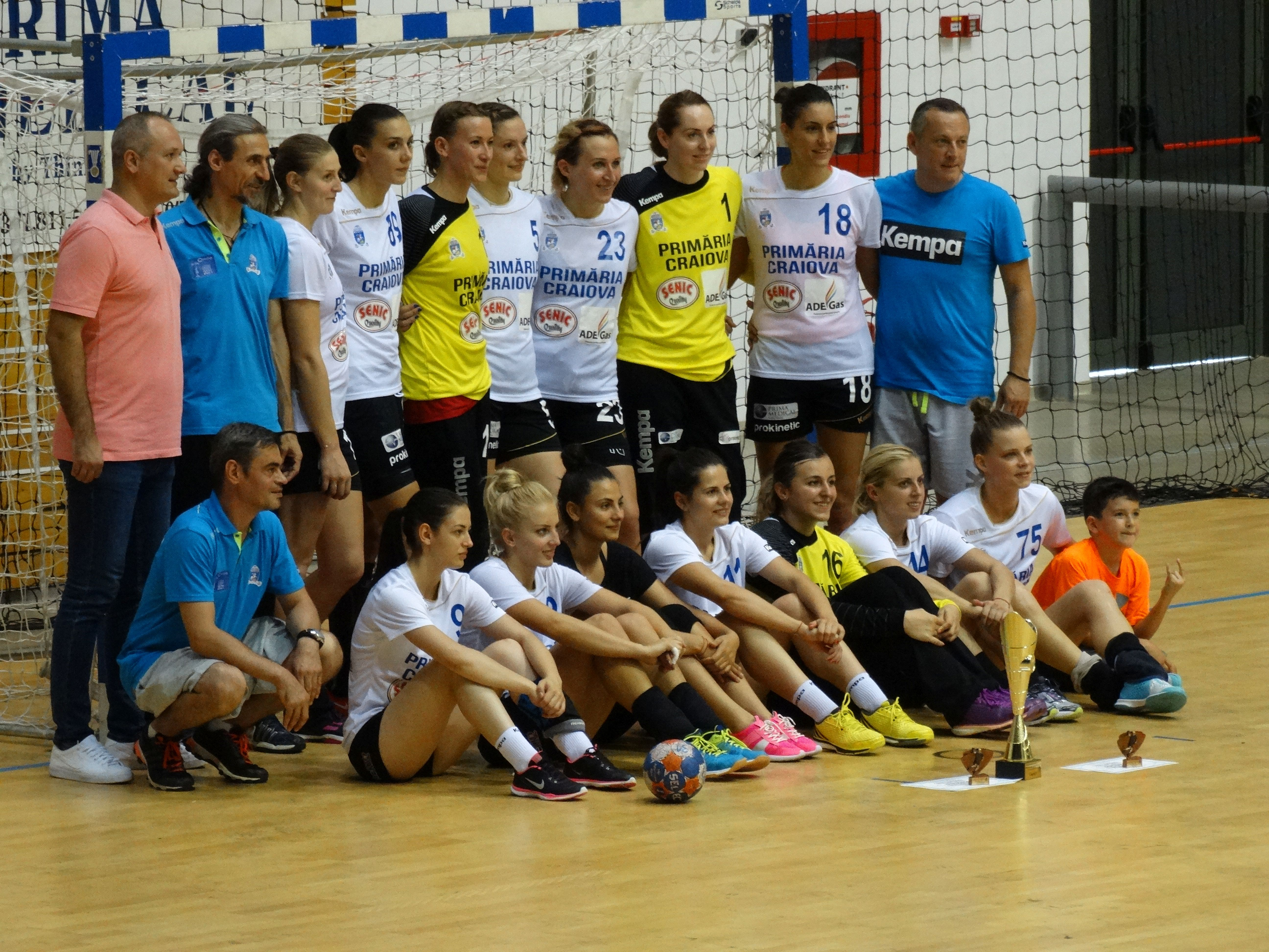 Romanian women's handball team SCM Craiova in August 2016.